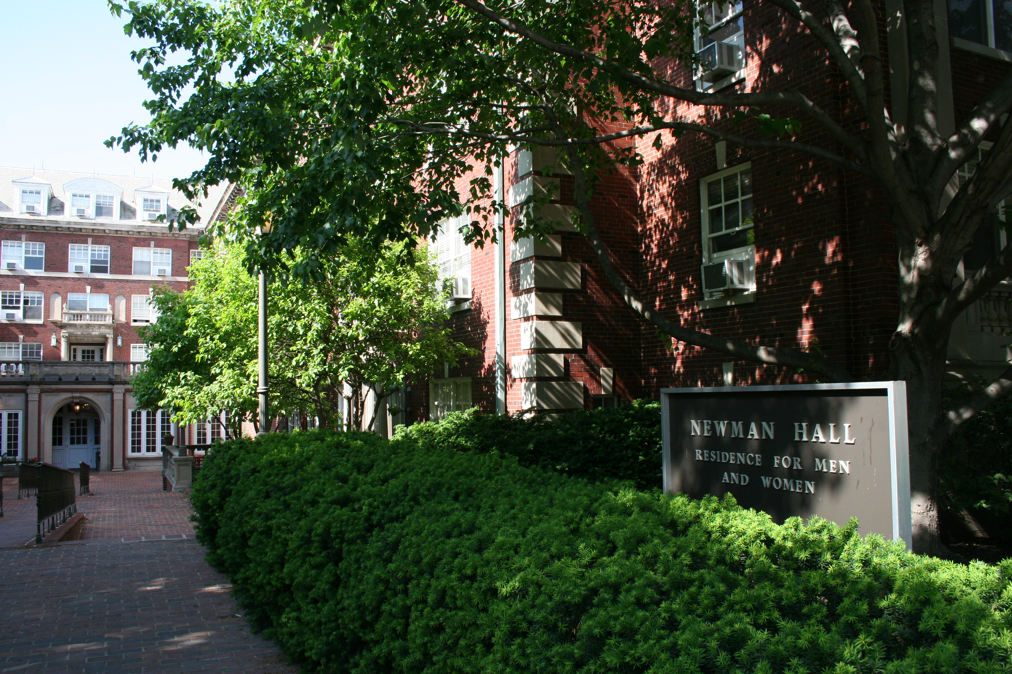 Sign and entrance to Newman Hall at St. John's Catholic Newman Center in Champaign, IL.